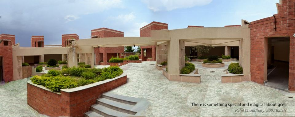 Common lecture halls at New Campus , GCET Jammu